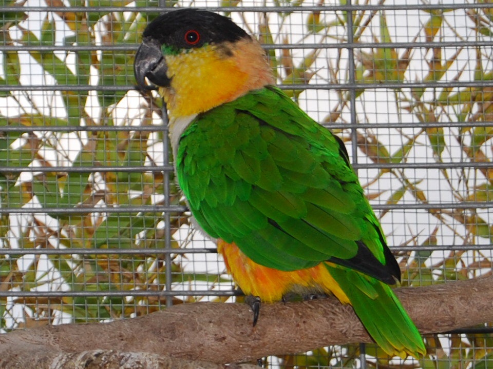 Black-headed Parrot;, also known as the Black-headed Caique, Black-capped Parrot